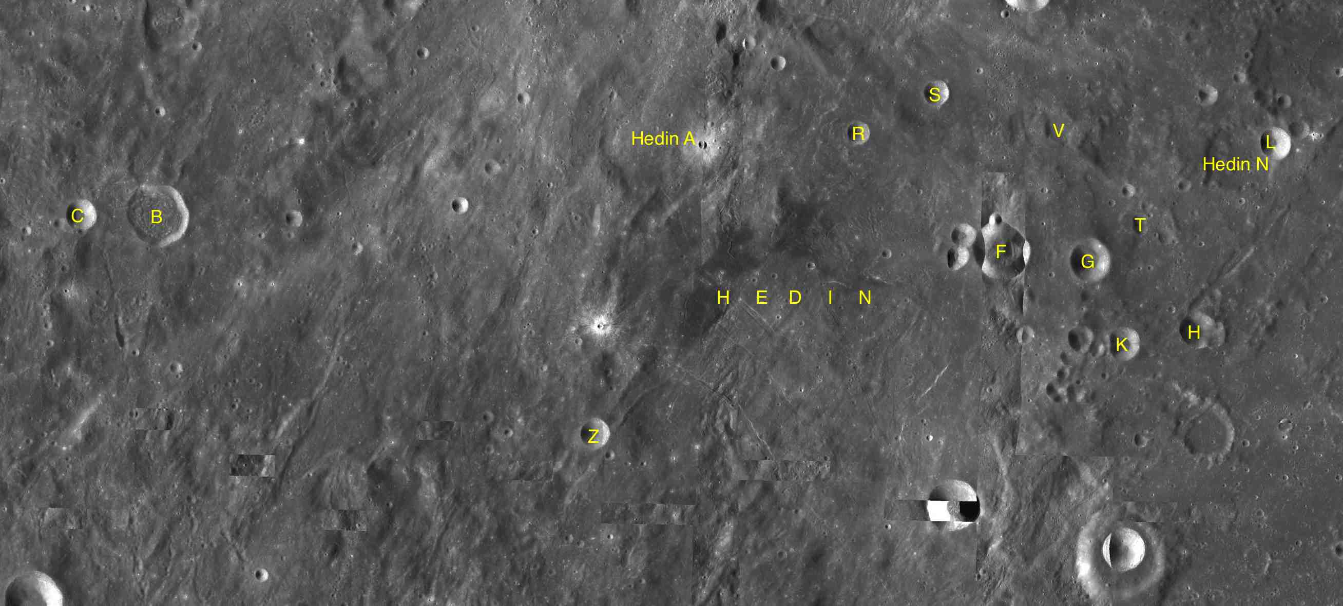 Part of the chart LAC-55 used for the presentation